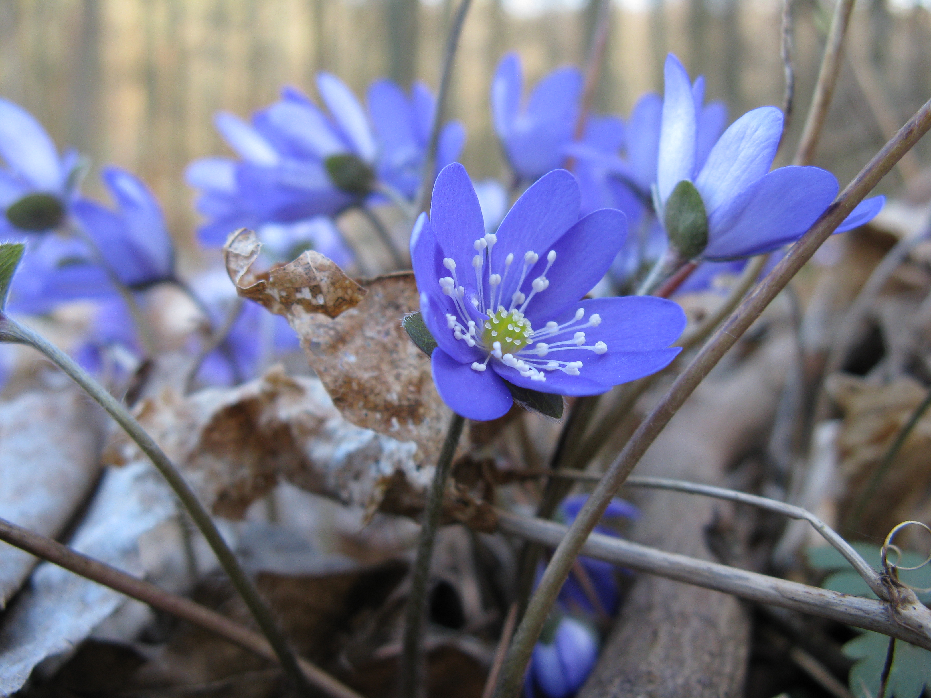 Anemone hepatica, near Drawsko Pomorskie